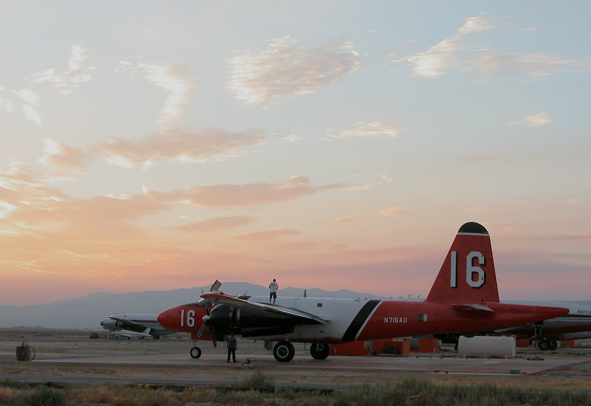 Aero Union P-2 Neptune air tanker, Tanker 16, is checked out by her crew at Lancaster, California, after a day fighting wildfires at the beginning of the disasterous 2003 Southern California fire season.